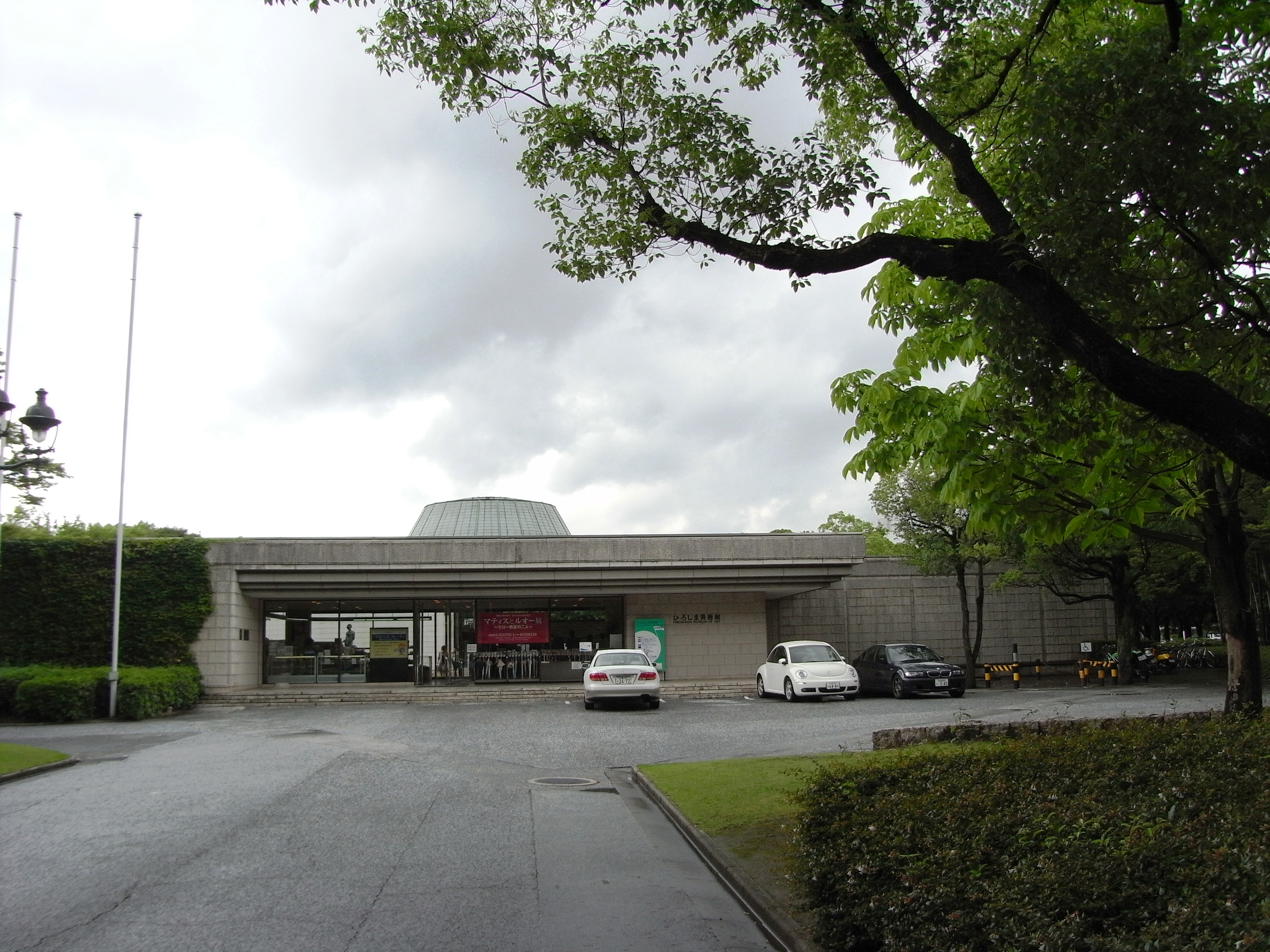 Hiroshima Museum of Art